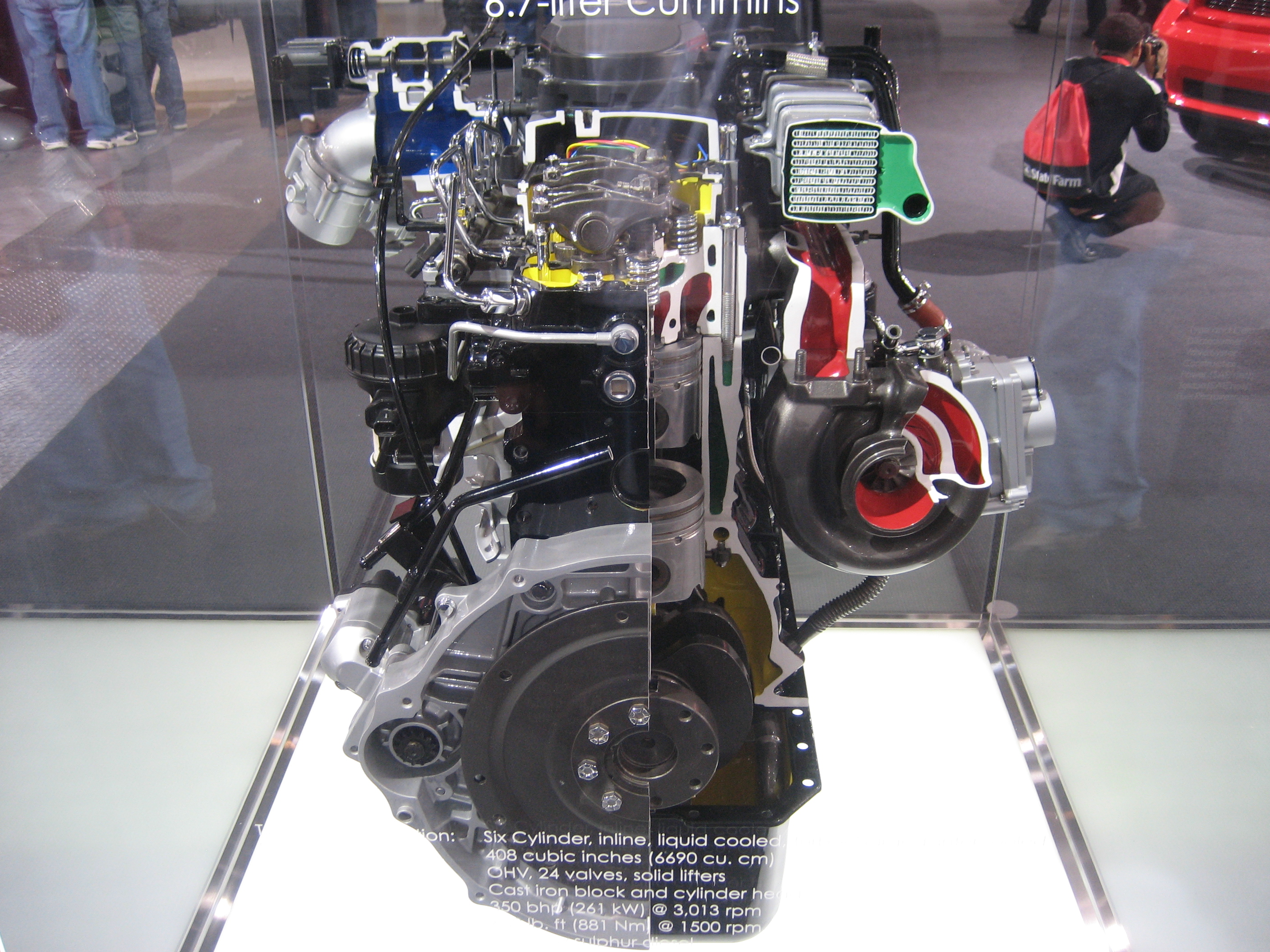 6.7 Cummins at the 2011 Detroit Auto Show. Cutaway/demo, behind glass.